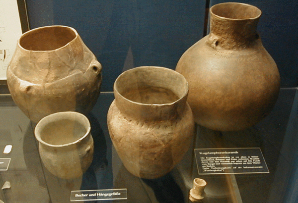 own image, 2000